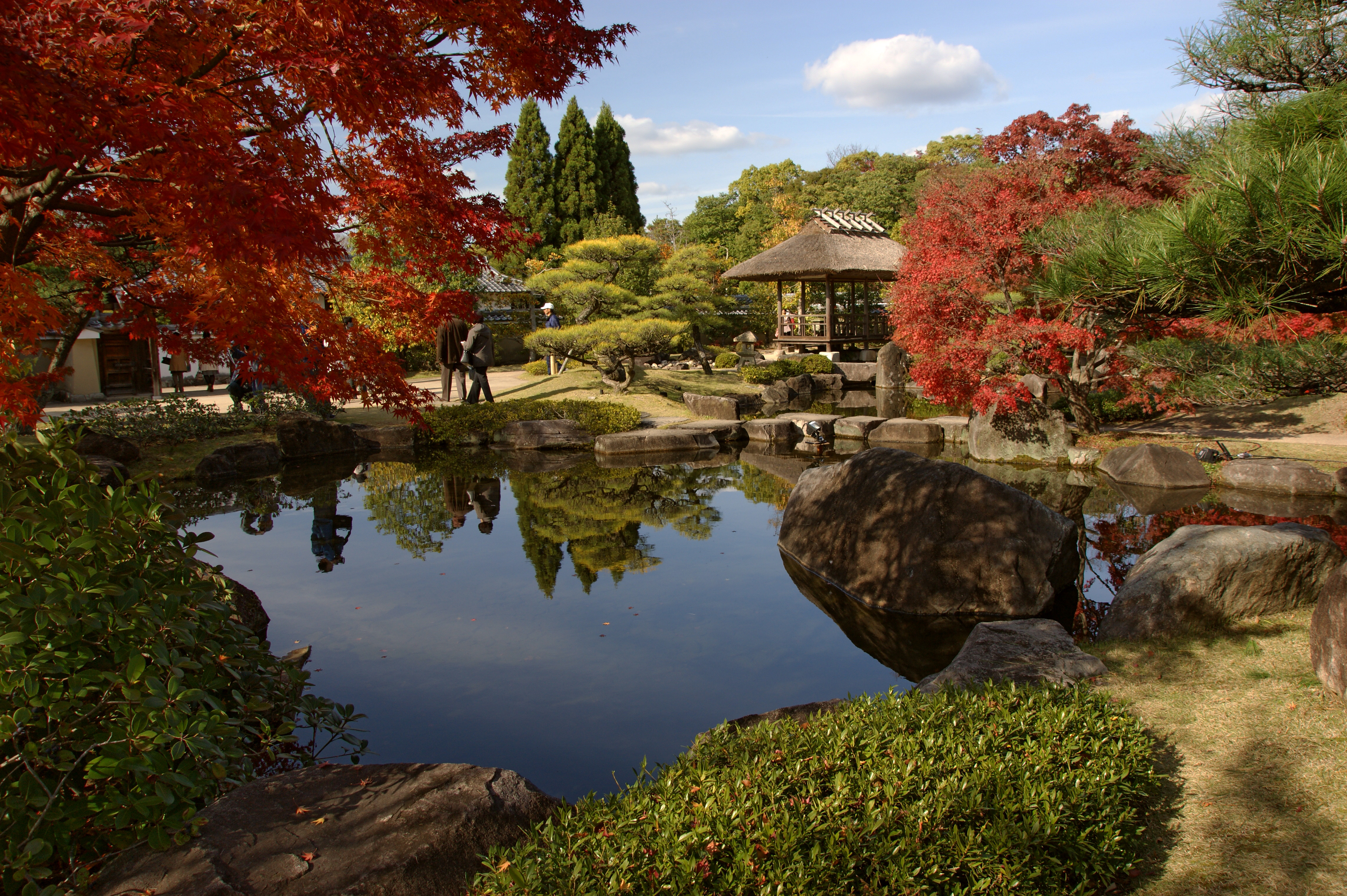 Koukoen, Himeji, Hyogo prefecture, Japan